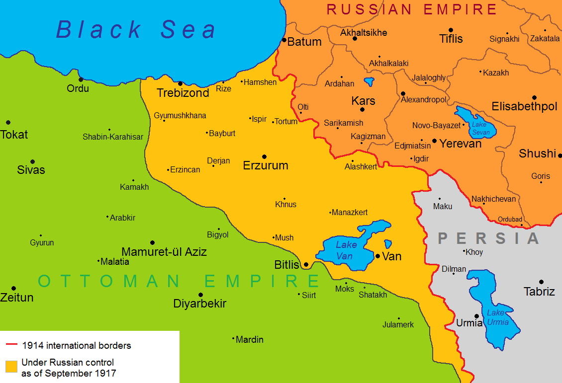 The Caucasus Front in September 1917, just before the October Revolution source: Yerevan State University Armenian Studies Institute